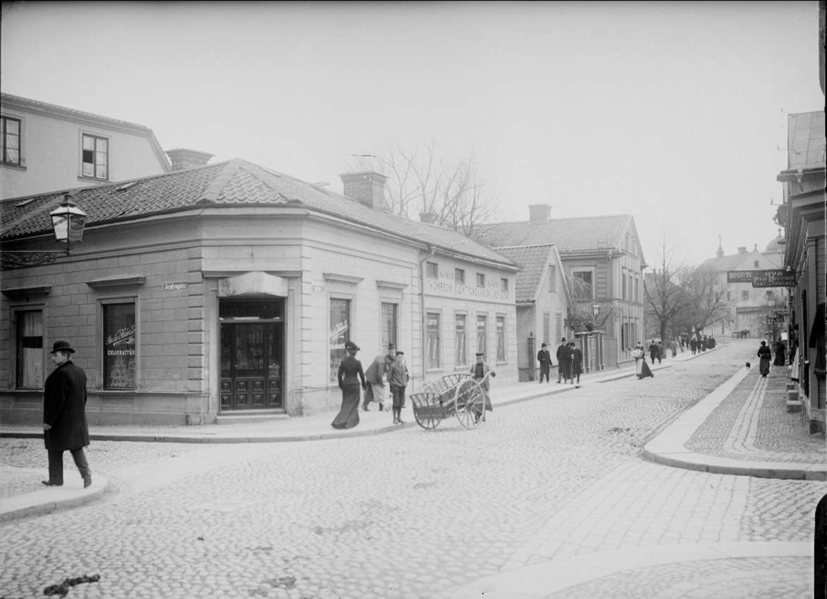 The city block "Karin" at the street "Sysslomansgatan" in Uppsala, Sweden, 1902.